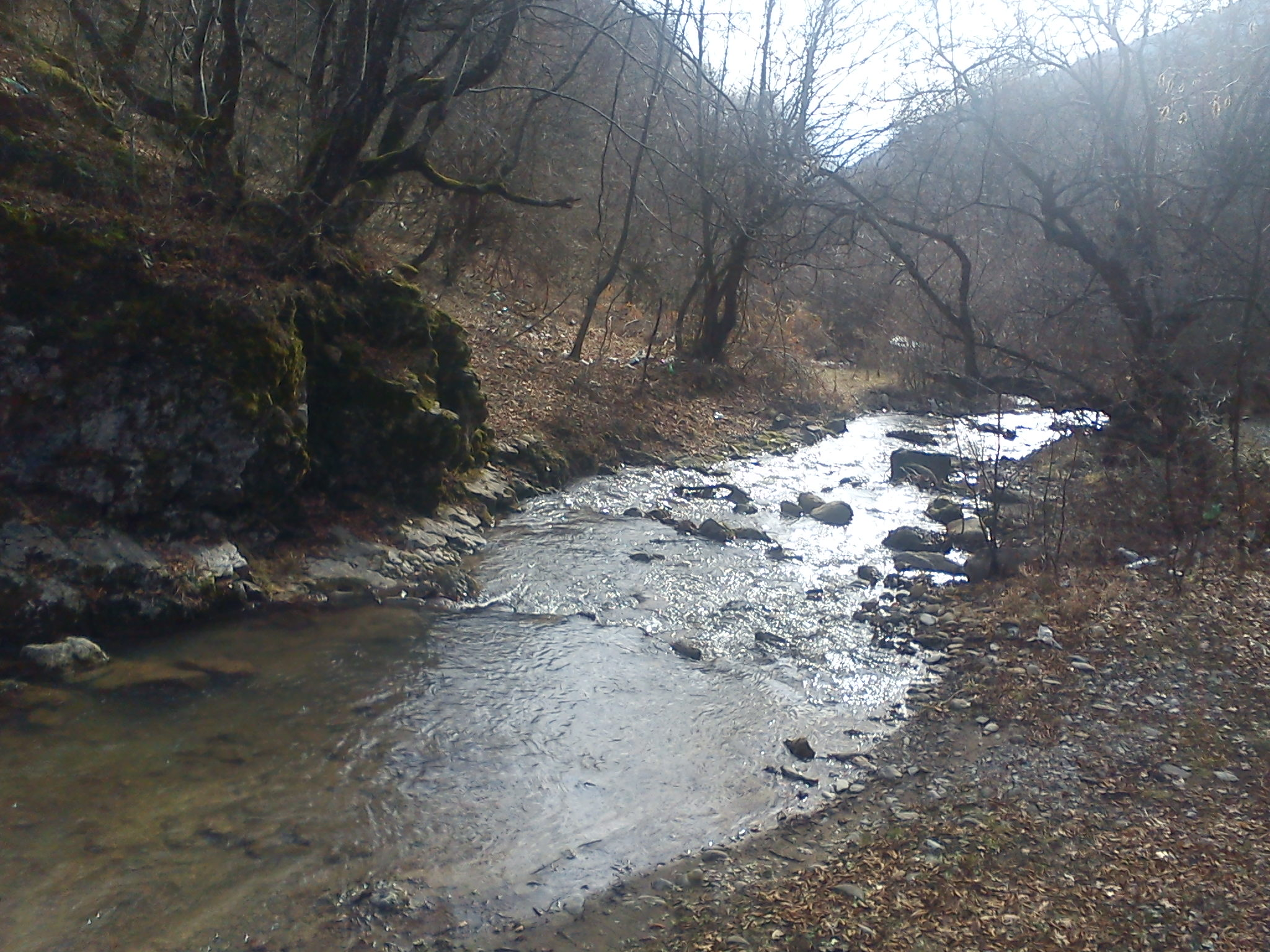 Banjanska River, Macedonia